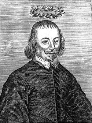 An engraved portrait of Richard Brome that preceded the title page of Five New Playes (1653